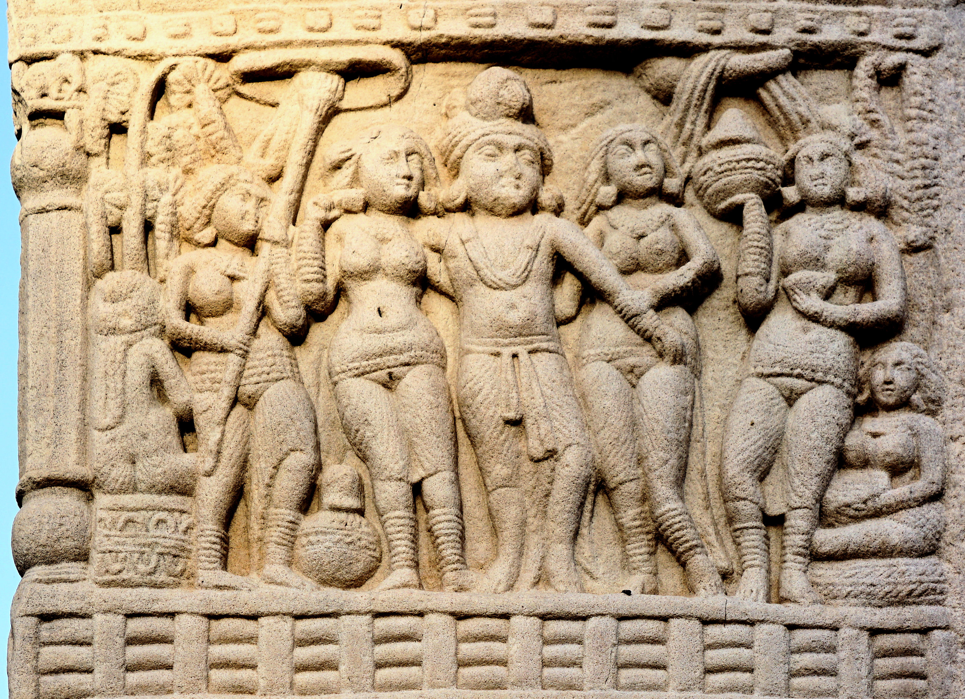 Ashoka with his Queens, South Gate, Stupa no. 1, Sanchi, photograph by Anandajoti Bhikkhu. Ashoka is in grief as he saw the pipal tree of the Buddha being neglected by Queen Tishyarakshita. He is so shocked that he has to be supported by his two wives. He would thereafter build a temple around the tree, seen in the panel above, and which would become the sacred site of Bodhgaya. Interpretation in "Ashoka in Ancient India", by Nayanjot Lahiri, Harvard University Press, 2015 p.296 The temple around the tree is visible above the Ashoka relief. A similar relief appears at Stupa No2, but in a poor state of preservation: .